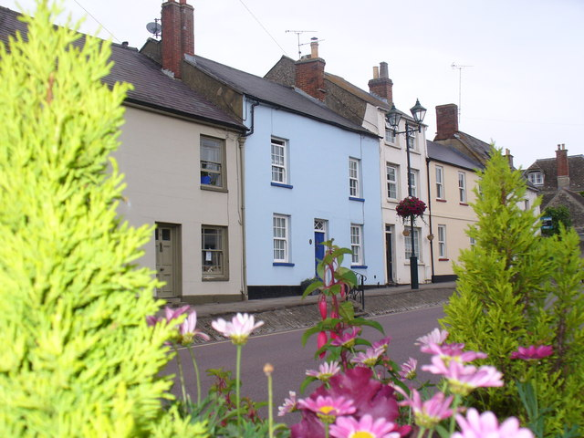 Georgian Cottages, Cricklade Old houses in the old town's main street - now painted in attractive pastel shades.